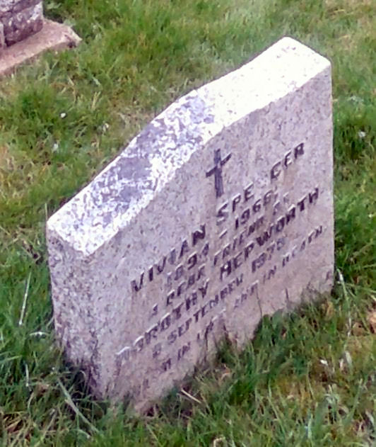 The grave of Patricia Reece and Dororthy Hepworth in Cookham Parish Cemetery in 2018